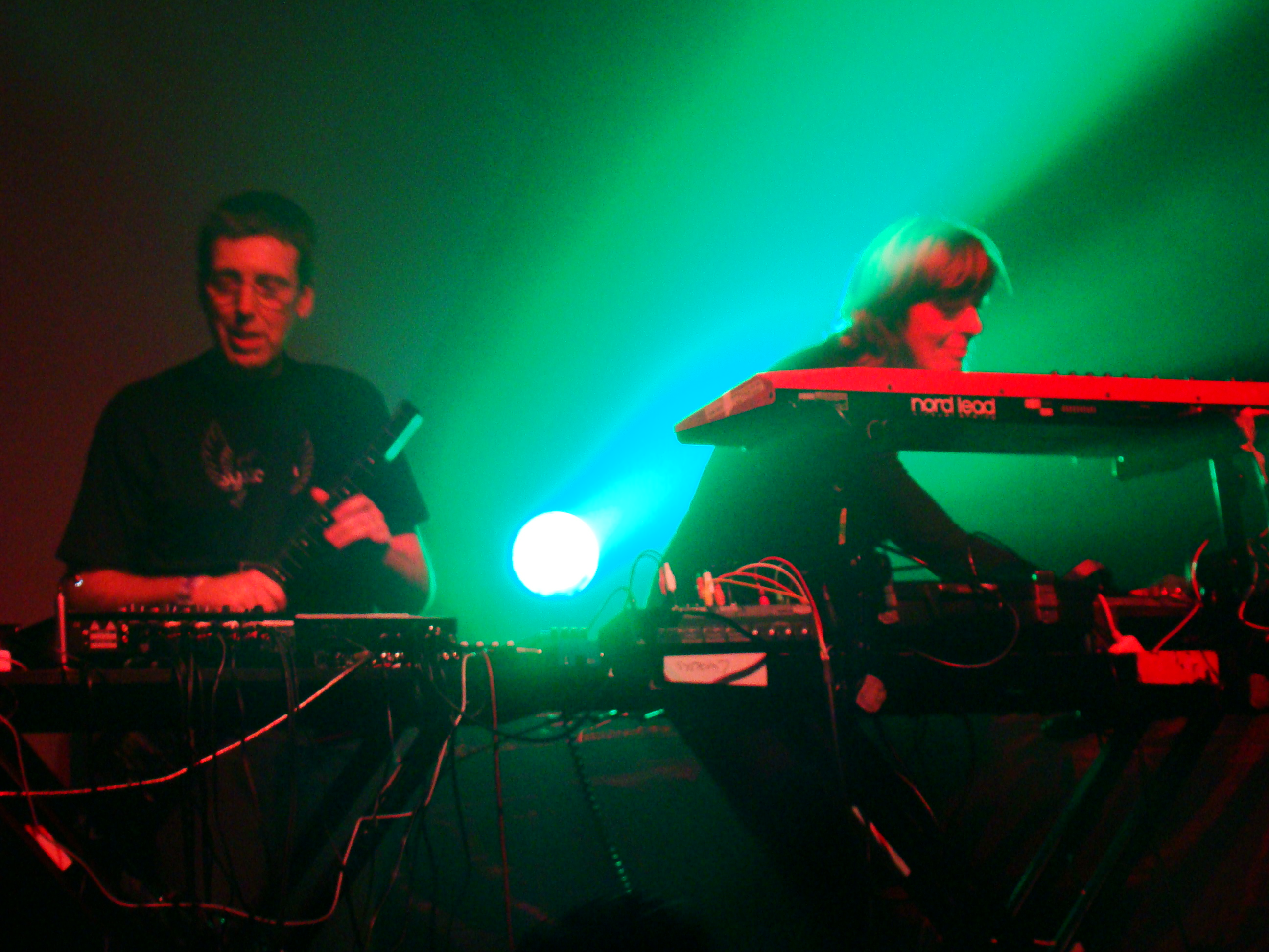 System 7. An ambient band comprising of Steve Hillage and Miguette Giraudy, seen here performing their album "Phoenix rising" at the London nightclub "Heaven".